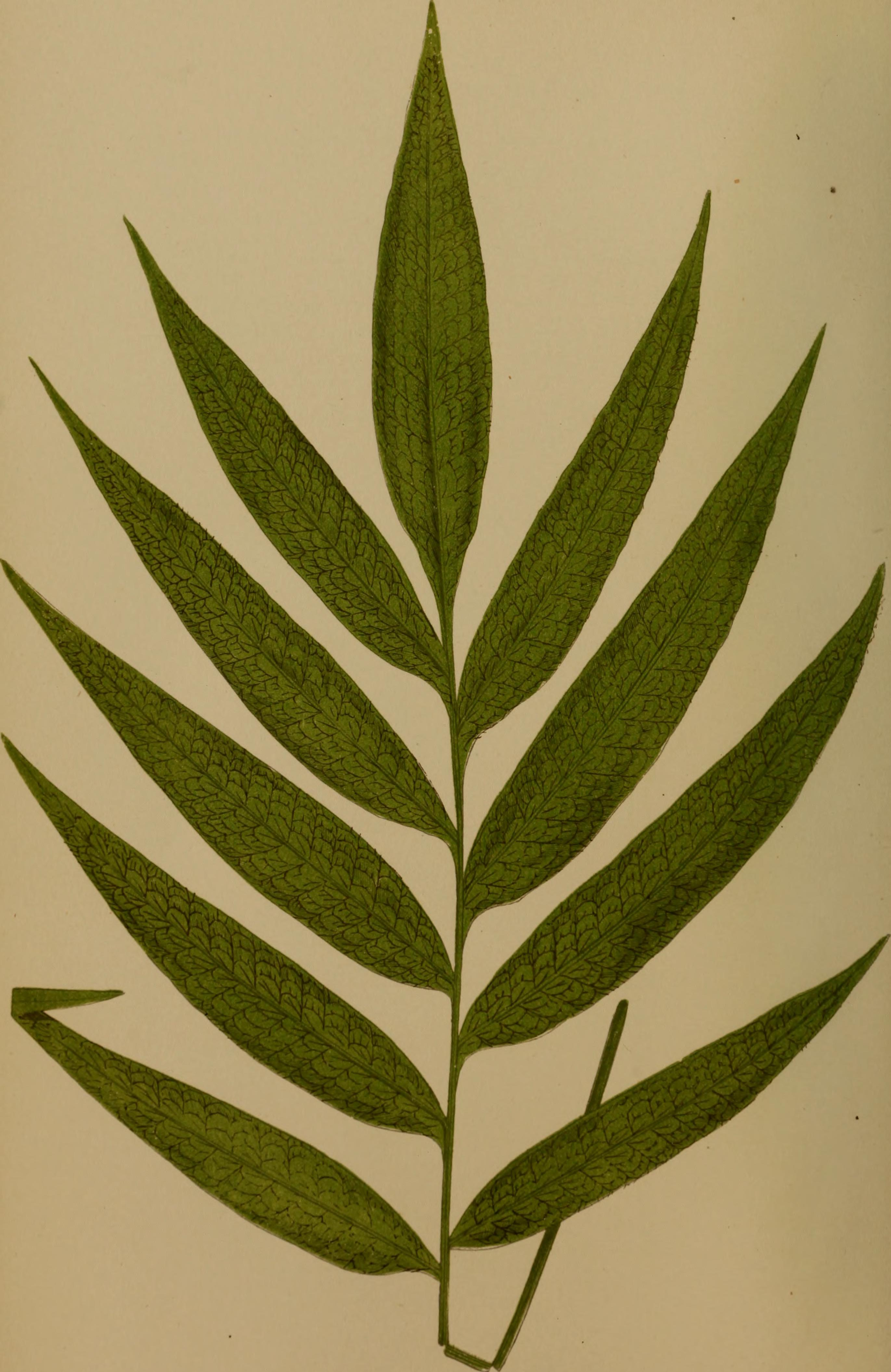 Title: Ferns: British and exotic.. Year: 1856 (1850s) Authors: Lowe, E. J. (Edward Joseph), 1825-1900 Subjects: Ferns Publisher: London, Groombridge and Sons Text Appearing Before Image: has very few rivals in elegance of habit, indeed I am notaware that it has hitherto been introduced into any othergarden besides that at Kew. An evergreen stove species. Native of the Islands of Philippine and Singapore. Slender pendulous fronds, which are pubescent in a slightdegree; the form of the frond lanceolate-acuminate; the formof the pinnae oblong-acuminate, undulated, slightly serrate, baserounded and articulated with the rachis. Sori uniserial, immersed deeply, forming elevated protuberanceson the upper surface of the frond. b POLYPOUIUM VERRUCOSUM. Length of frond from four to five feet; colour brilliant green.Kachis and stipes scaly, and being articulated on a creepingrhizoma. I have not been fortunate enough to procure a plant, butmy thanks are due to Dr. Hooker and Mr. J. Smith, for fronds. As yet the present rare species is not to be procured fromour Nurserymen. The illustration of three pinnse is from a mature frond for-warded by Dr. Hooker, of the Royal Gardens, Kew. Text Appearing After Image: POLTPODTI^M DECURRENS,IV-VOL. 2.